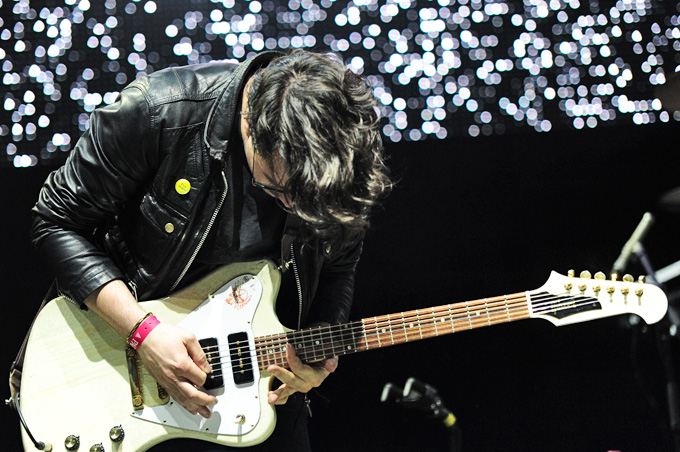 Parklife Festival 2011